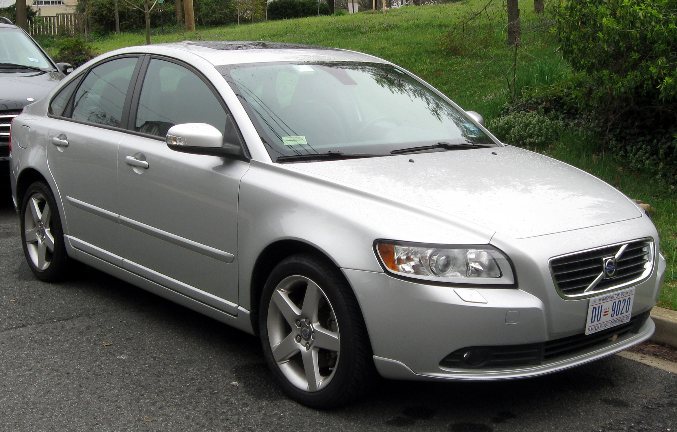 2008-2011 Volvo S40 photographed in Washington, D.C., USA.